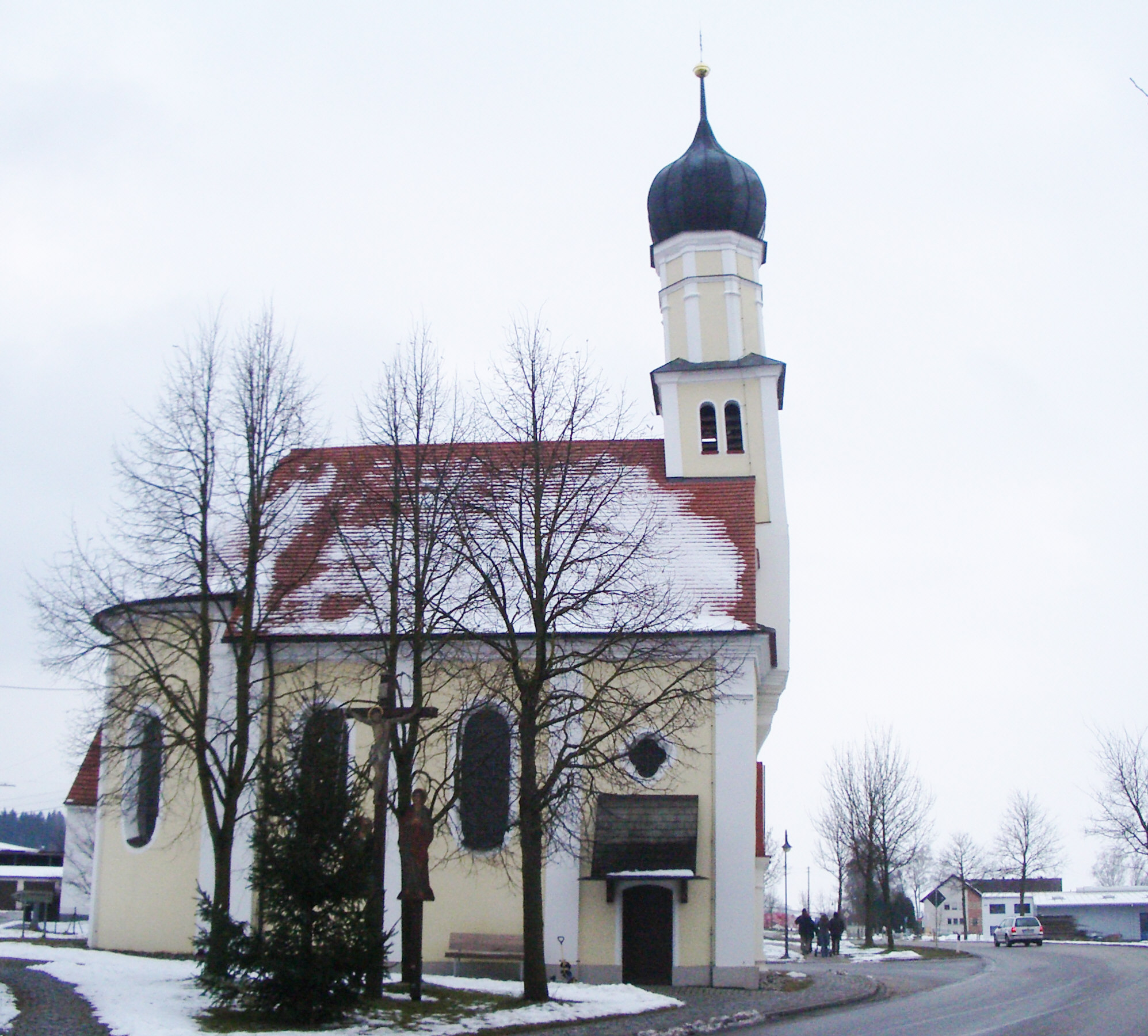 Balzhausen, view of Saint Leonard Chapel from north.